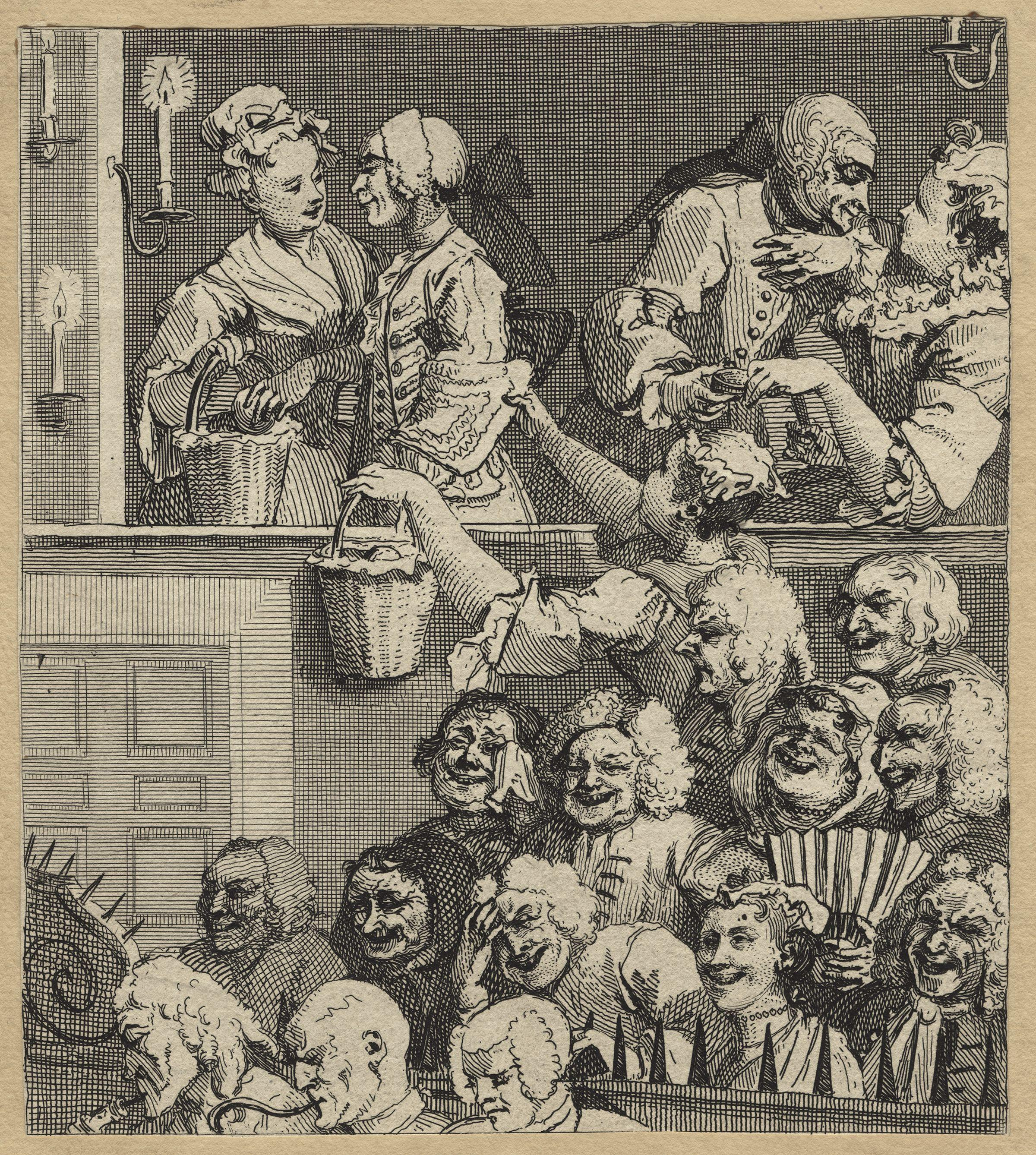 The Laughing Audience (or A Pleased Audience), by William Hogarth (died 1764). All images in this batch have been confirmed as author died before 1939 according to the official death date listed by the NPG.